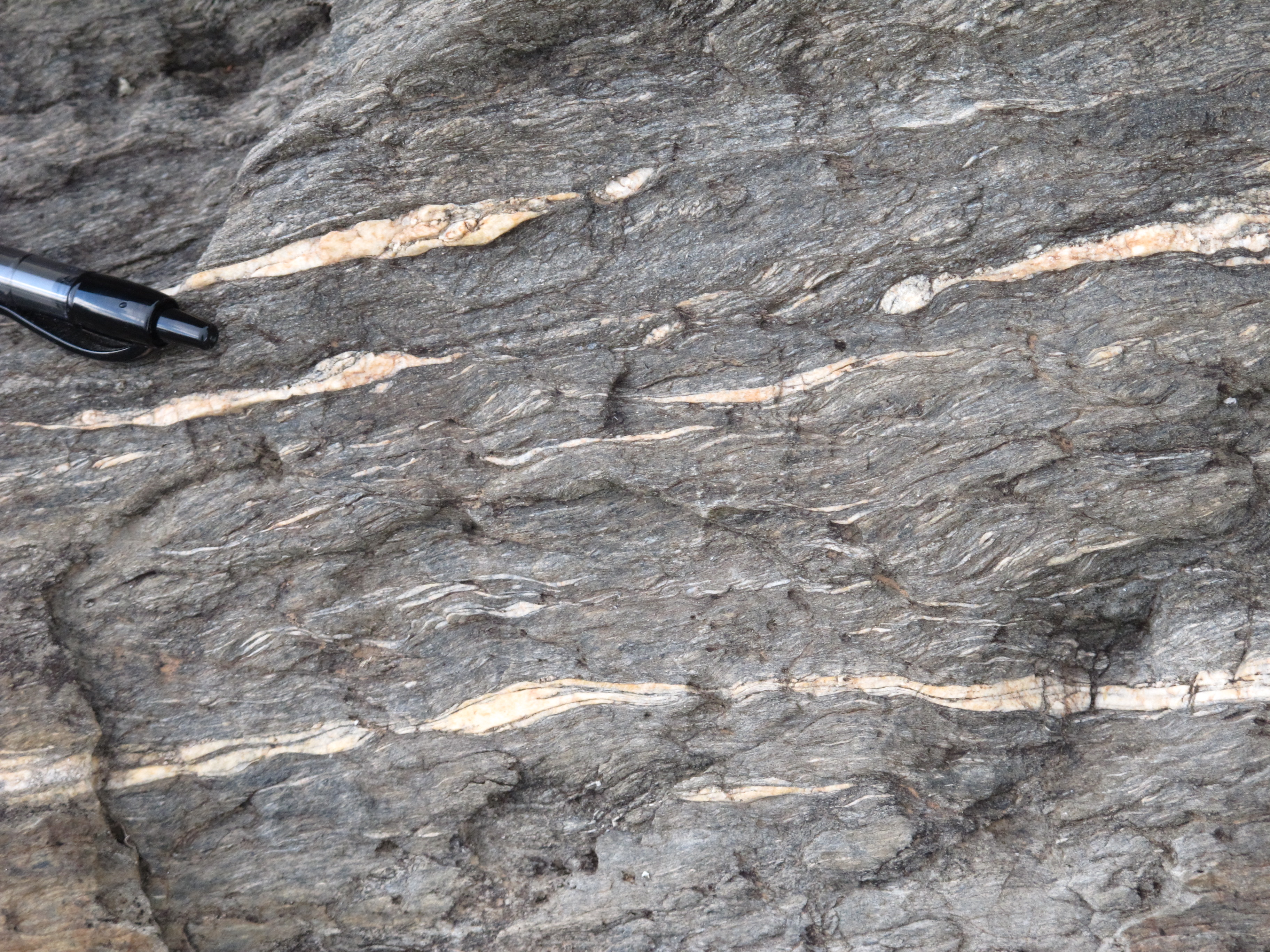 Dextral sense shear bands in mylonite developed in a dextral shear zone in the Cap de Creus area, Catalunya. Pen barrel 1 cm diameter for scale